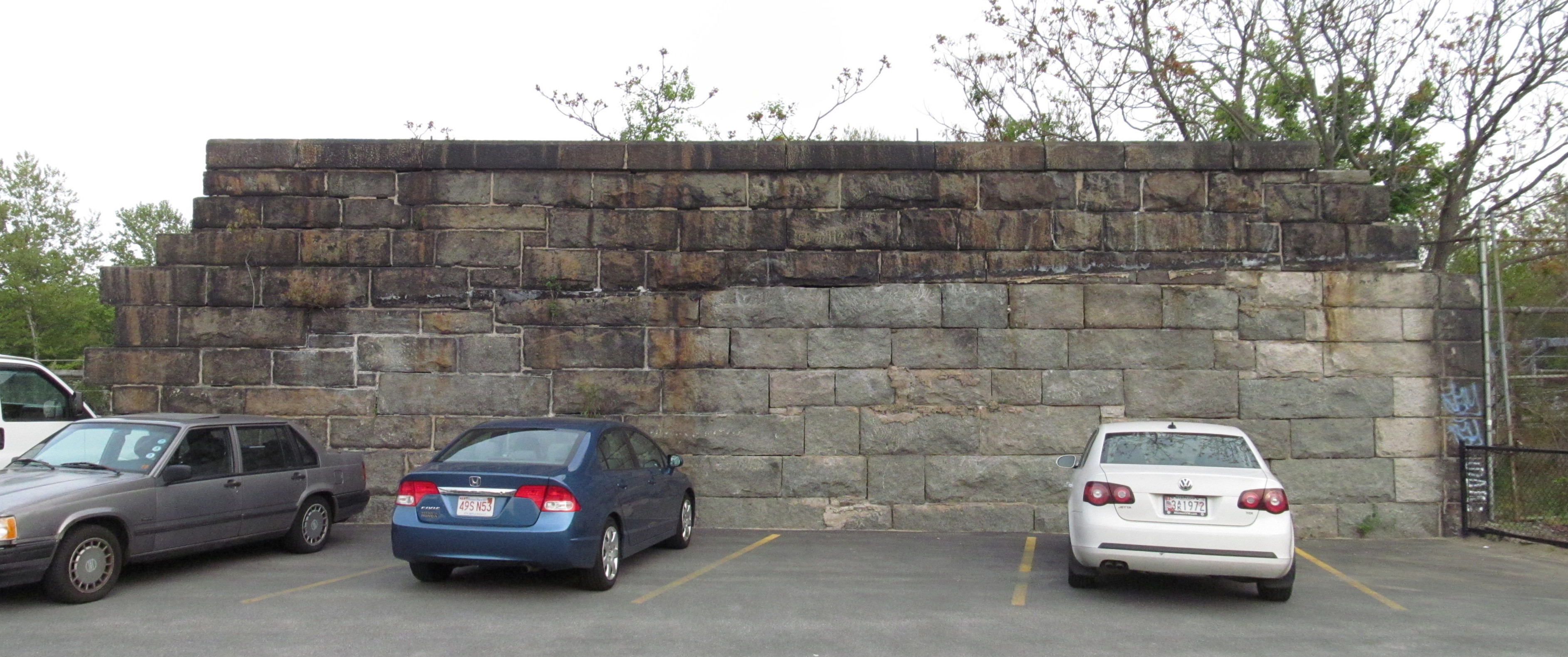 A remaining section of the former Southwest Corridor embankment, photographed in May 2012